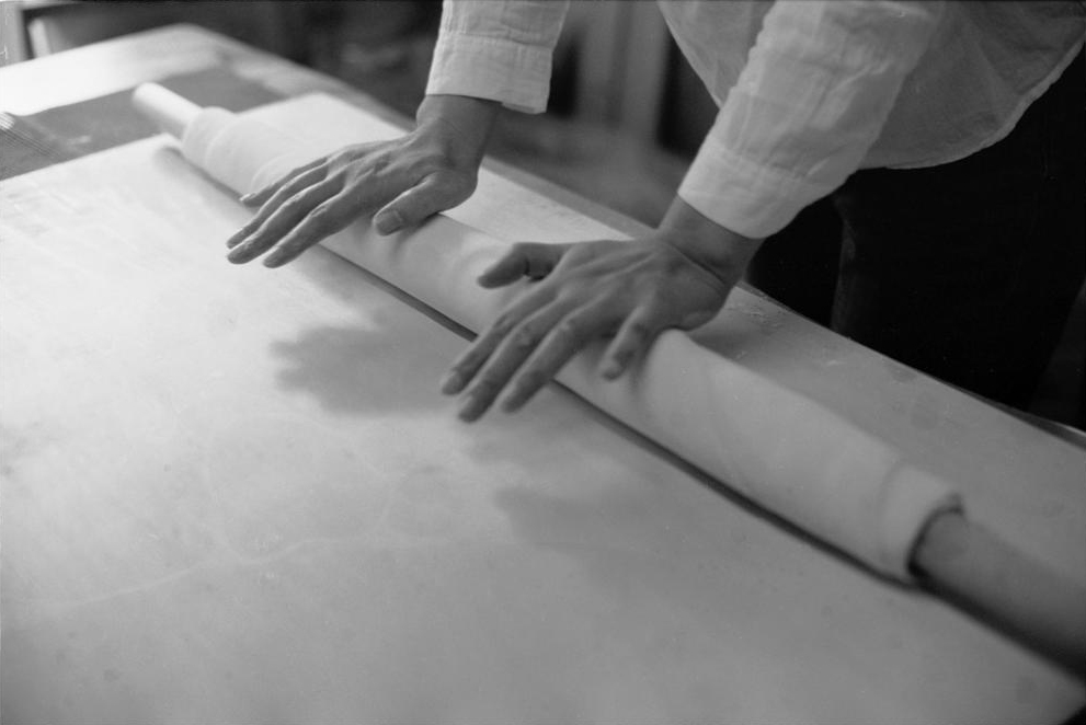 Making of Japanese thick noodle Udon with the rolling pin, at Ube, Yamaguchi, JAPAN.